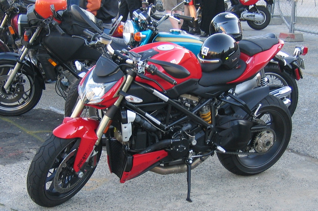 Ducati Streetfighter. Backfire Motorcycle Night, Ballard, Wa, 19 Aug 2009